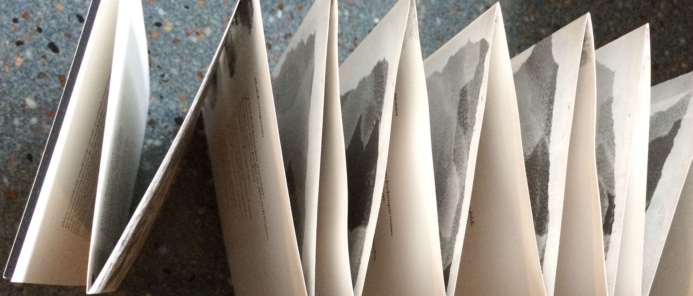 Impression of Indruk